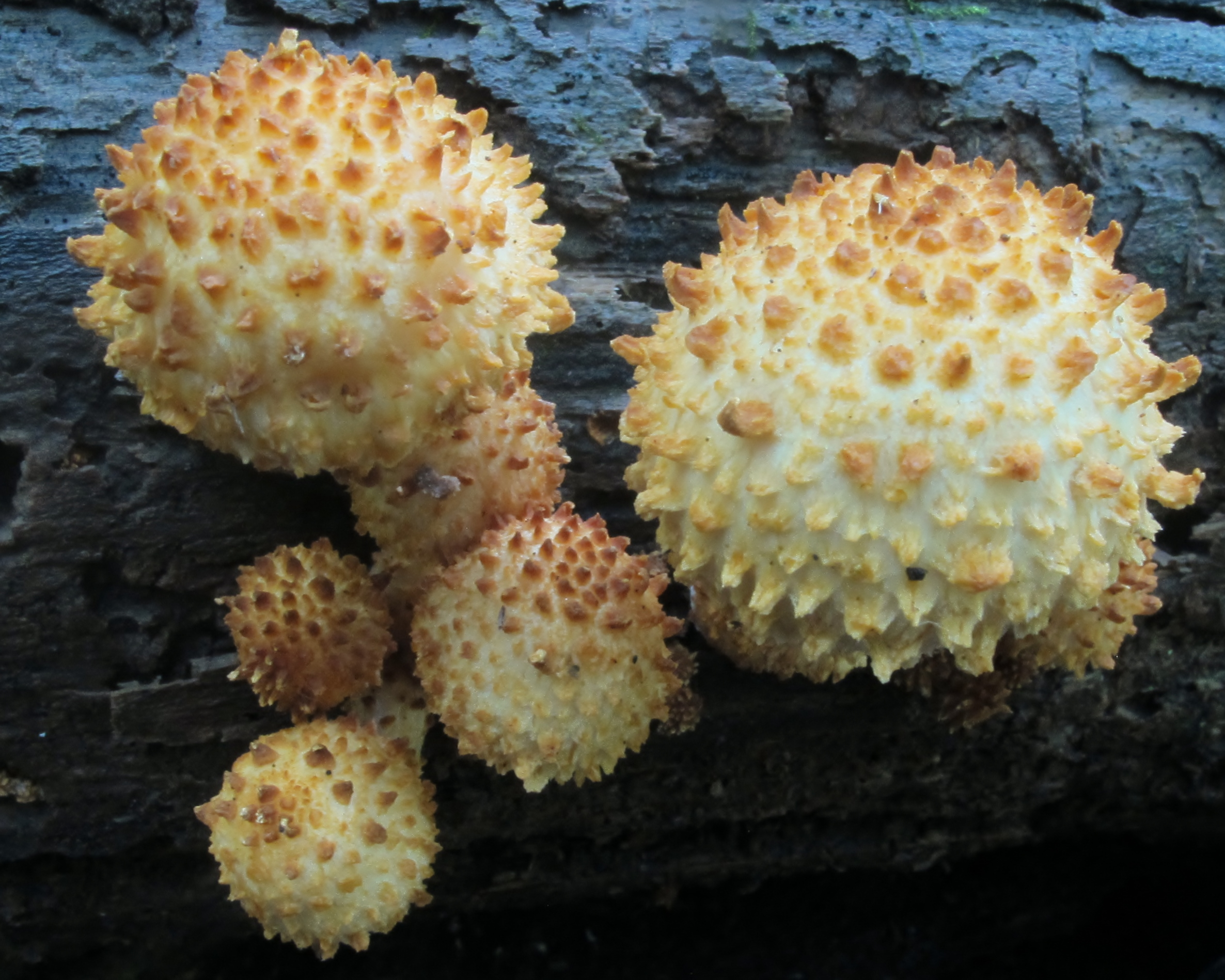 Pholiota squarrosoides (Peck) Sacc. Image location: McKeever Environmental Learning Center, Sandy Lake, Pennsylvania, USA Recognized by sight For more information about this, see the observation page at Mushroom Observer.